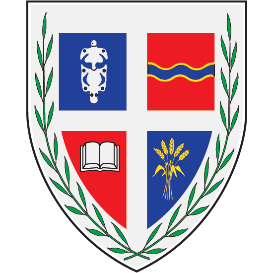 Grb Vrbasa